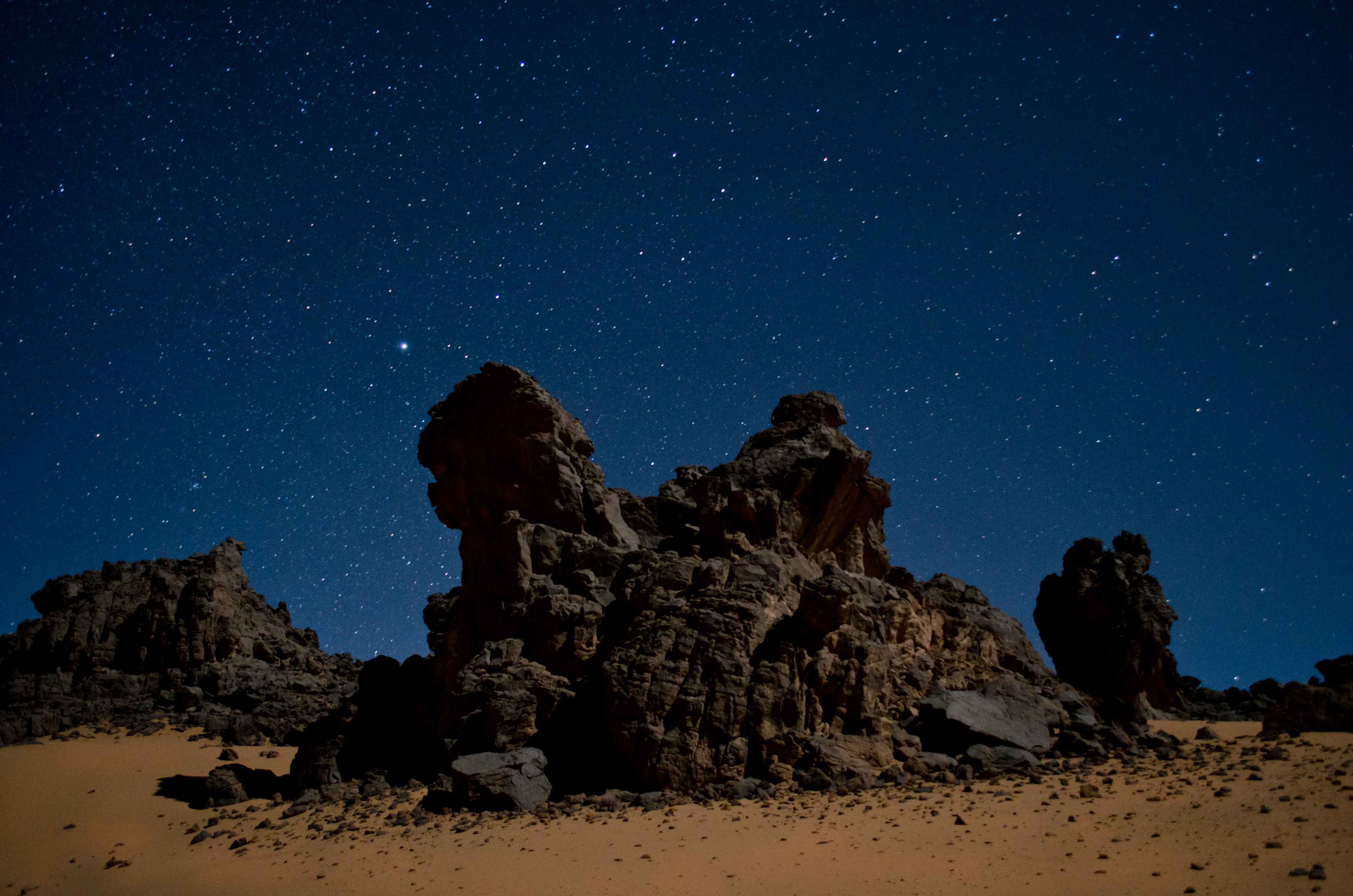 Rock towers in the Algerian Sahara. Tamanrasset, Algerien